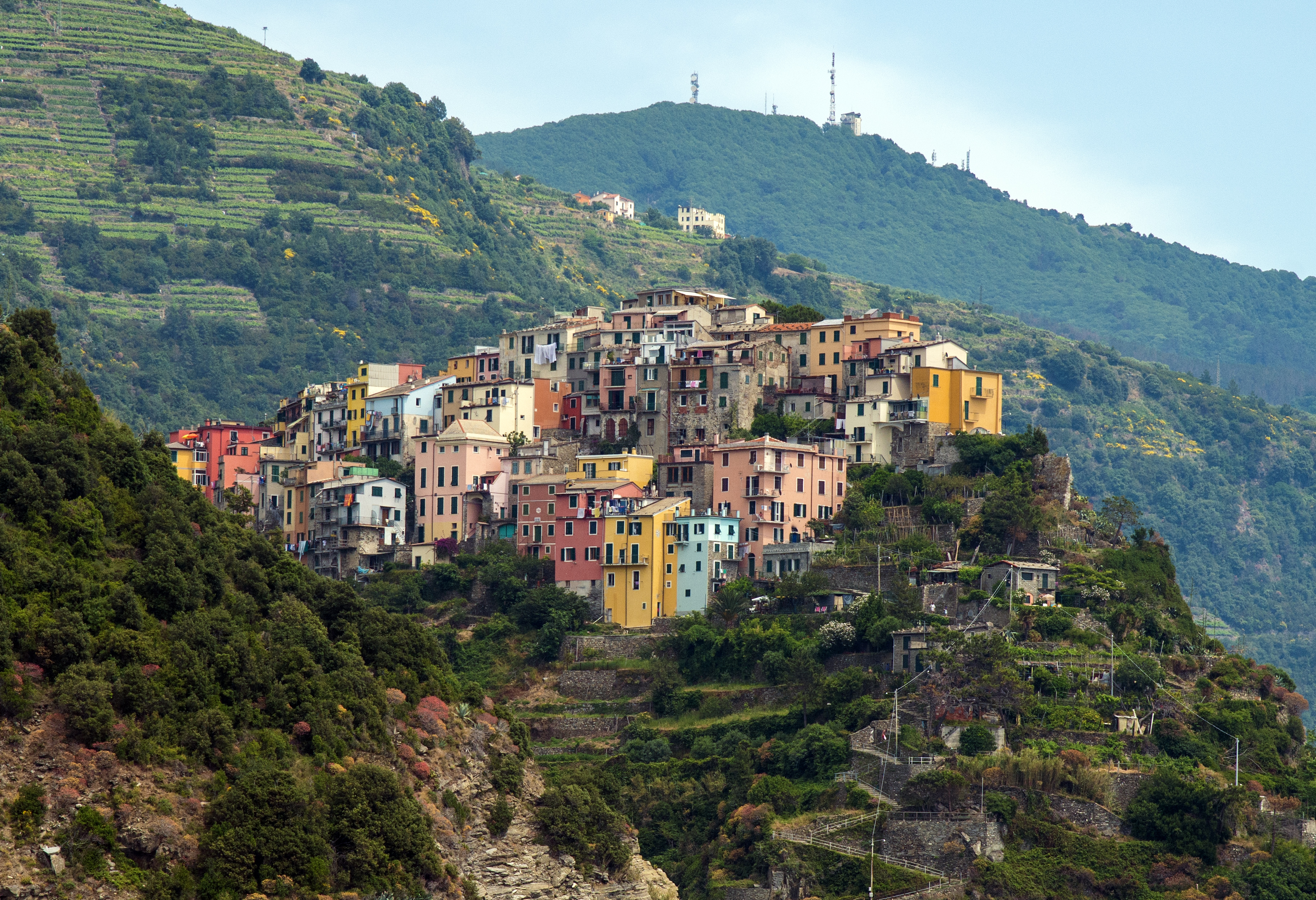 Corniglia cinque terre italy 2012 and vineyard terraces.